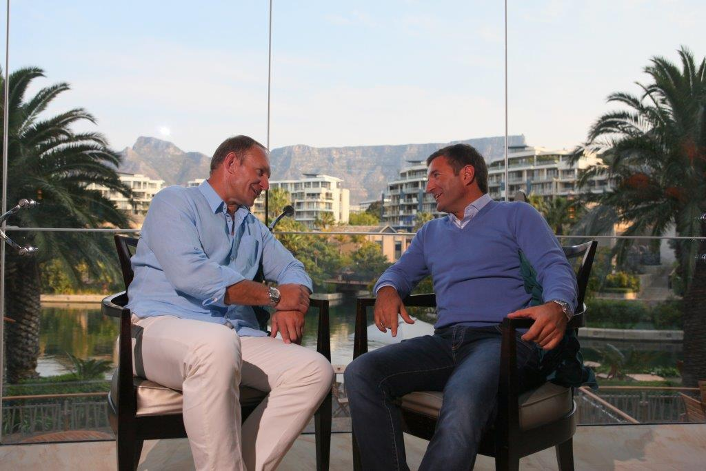 François Pienaar e Diego Biasi